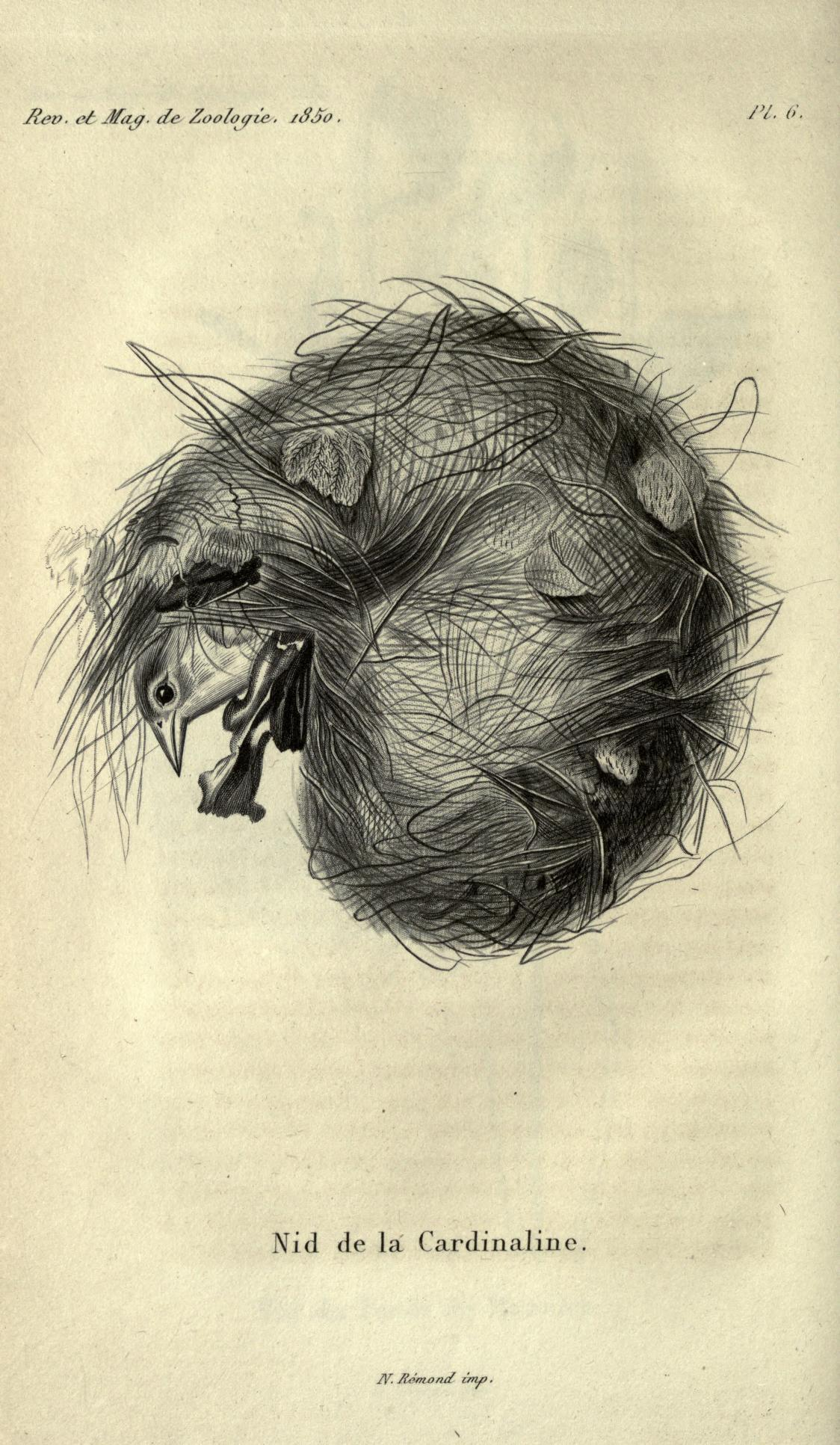 Nest of Mauritius Fody (Foudia rubra)